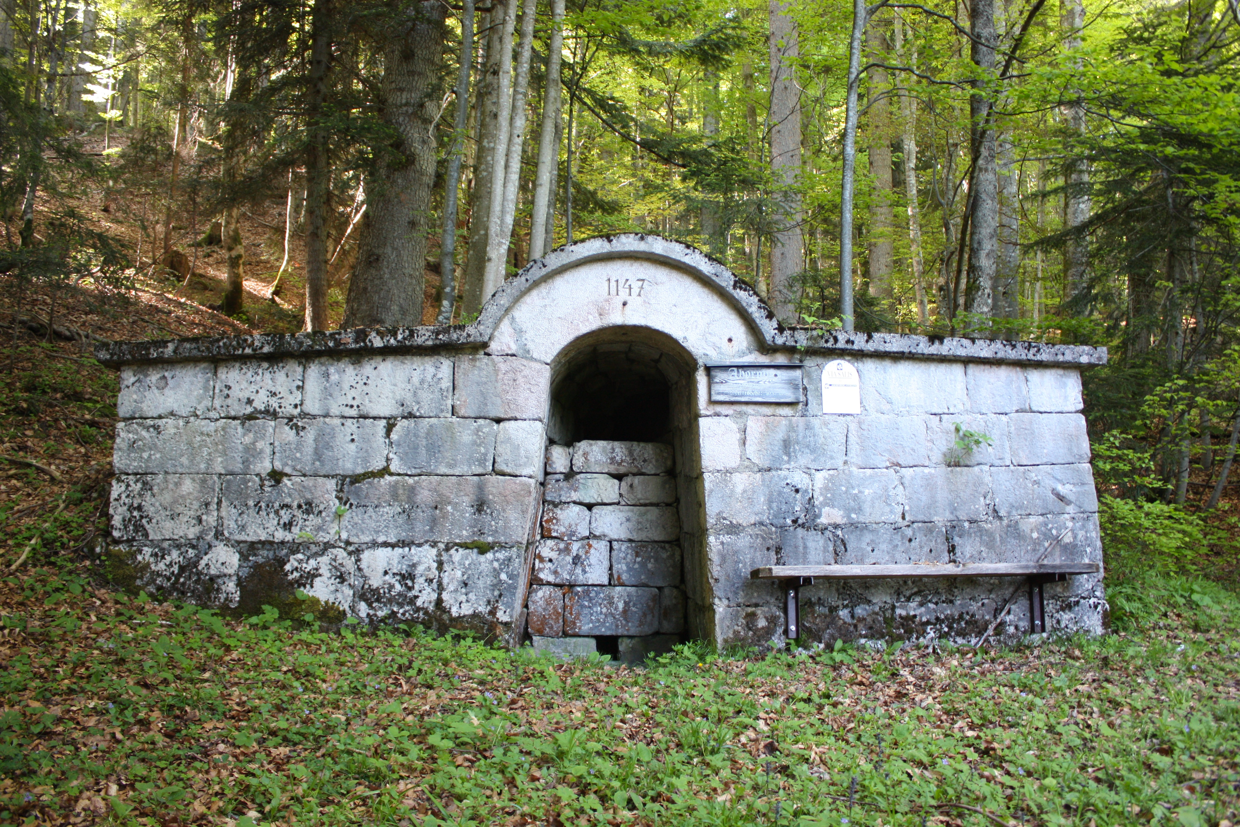 The mining tunnel entrance in Altaussee, first mentioned in 1147, now in ruins